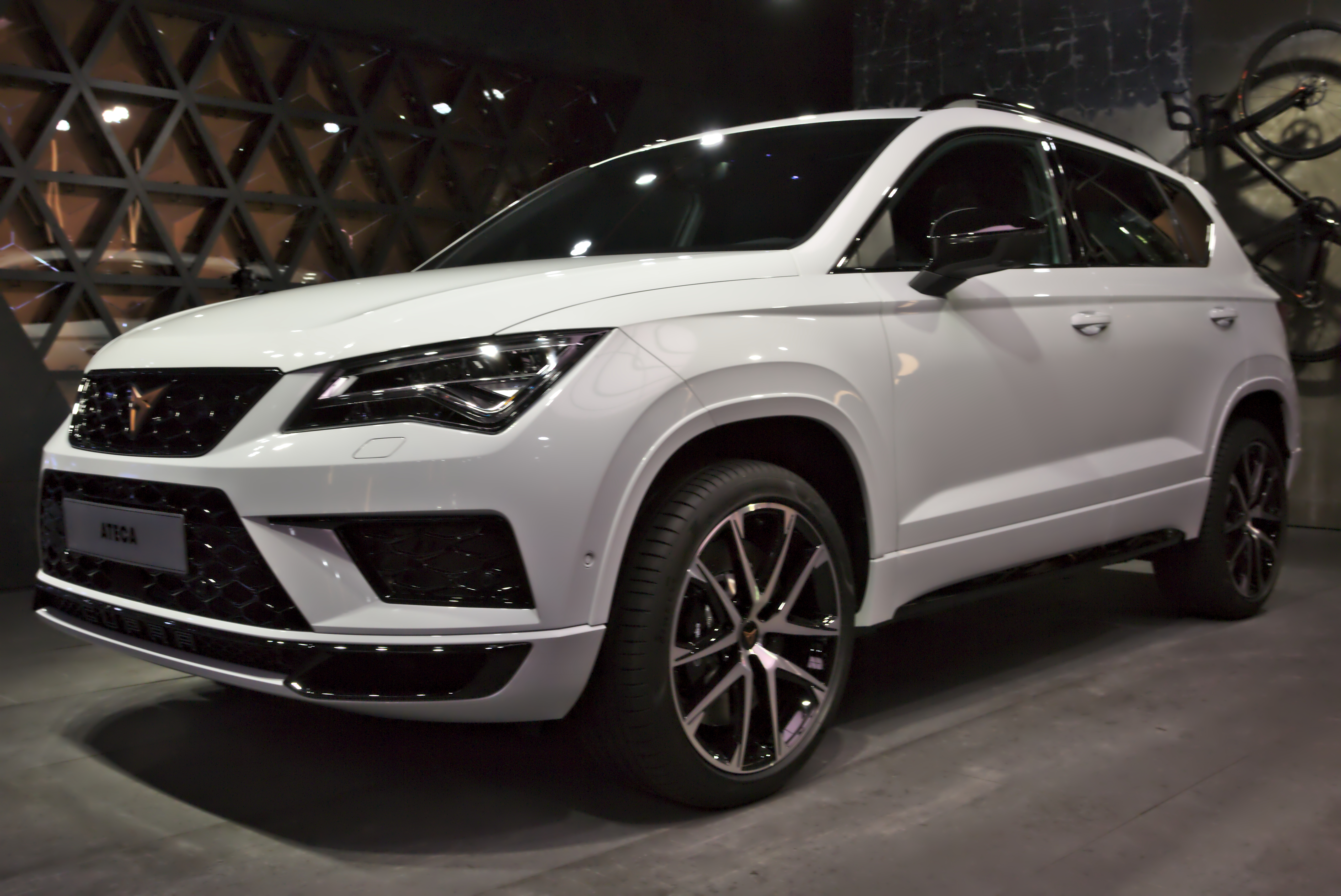 Cupra Ateca at Geneva Motorshow 2018